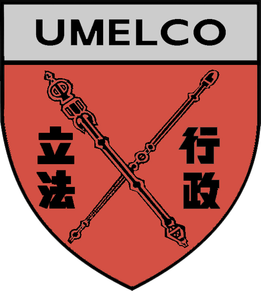 The emblem of the Office of the Unofficial Members of Executive and Legislative Council, which existed in Hong Kong from 1963 to 1985. 粵語: 香港嘅行政立法兩局非官守議員辦事處嘅標誌（1963年至1985年）